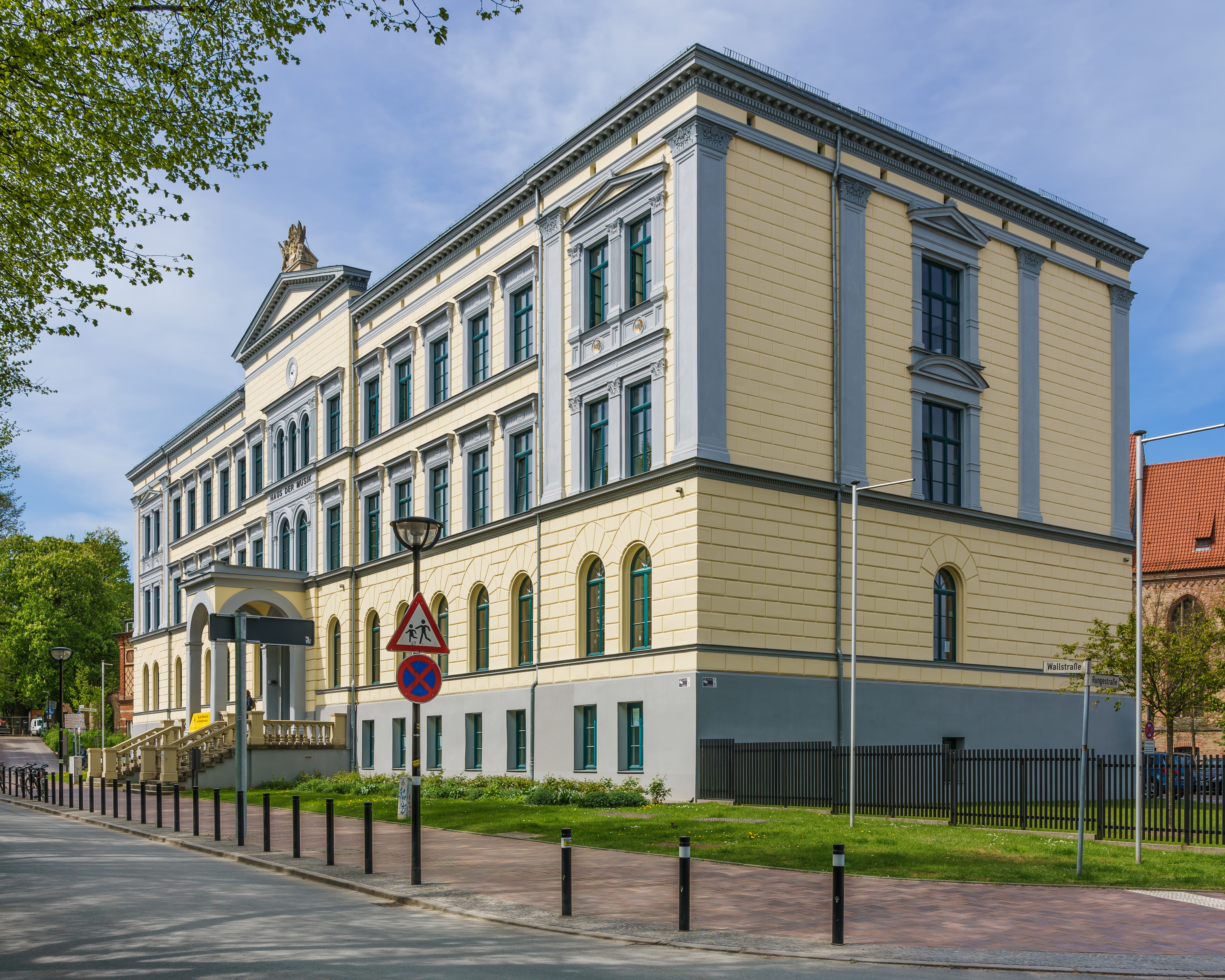 Historical school building in Rostock, Germany